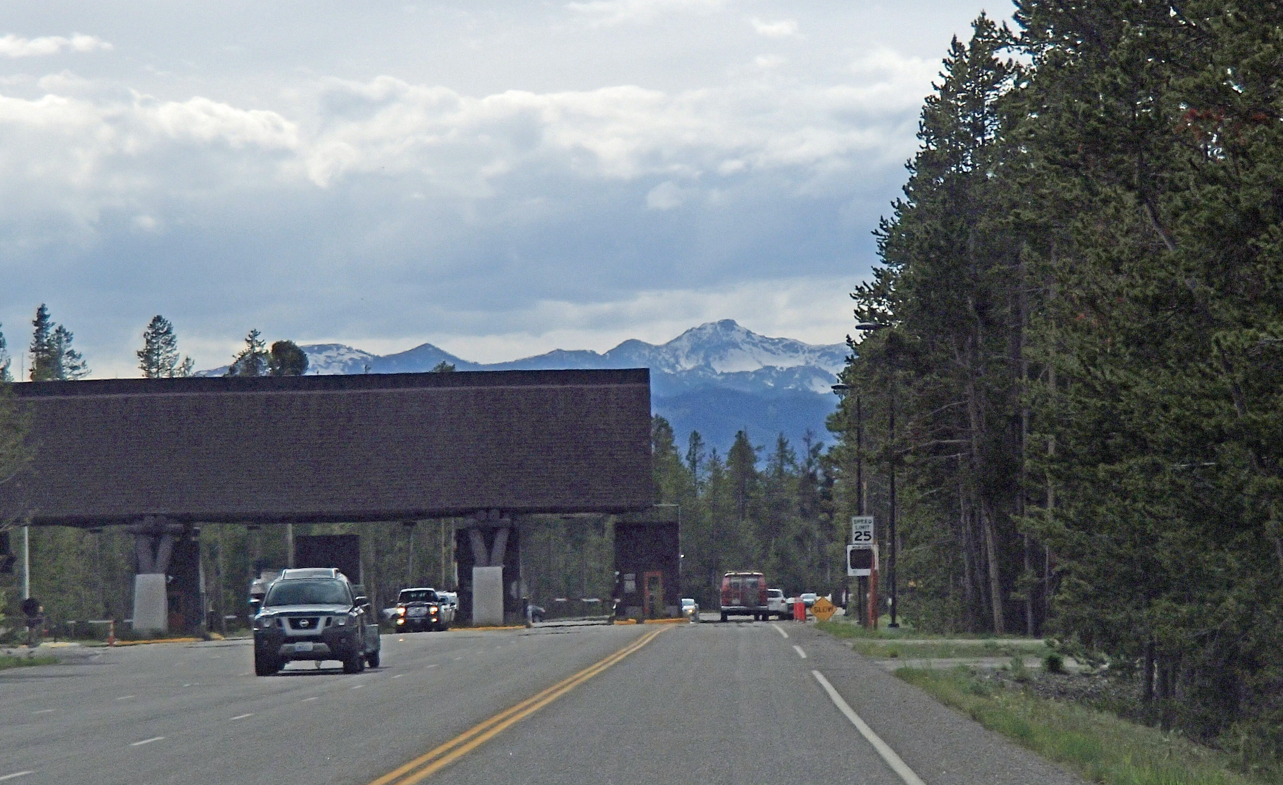 Western Exit of the Yellowstone National Park in West Yellowstone, Montana